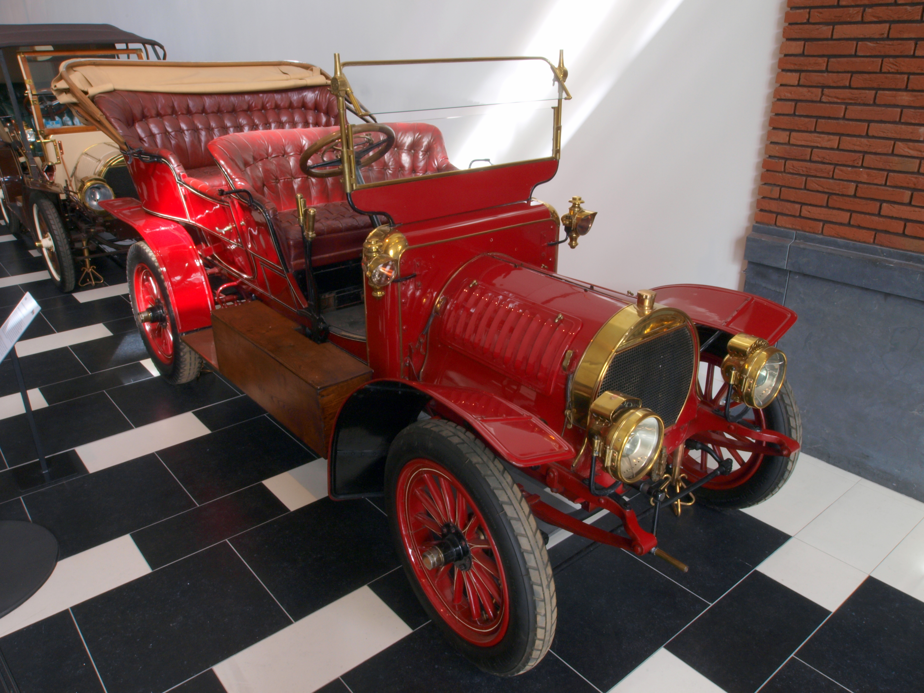 Spyker 14/18-HP. Photographed at the Louwman museum, The Netherlands.